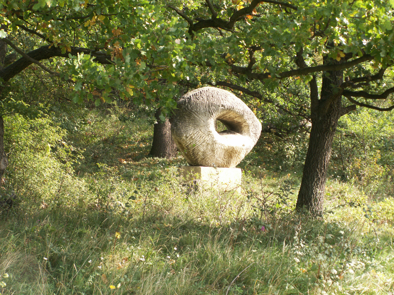 „Symposion Europäischer Bildhauer“, St.Margarethen – Burgenland/Austria, Krishna Reddy, 1962